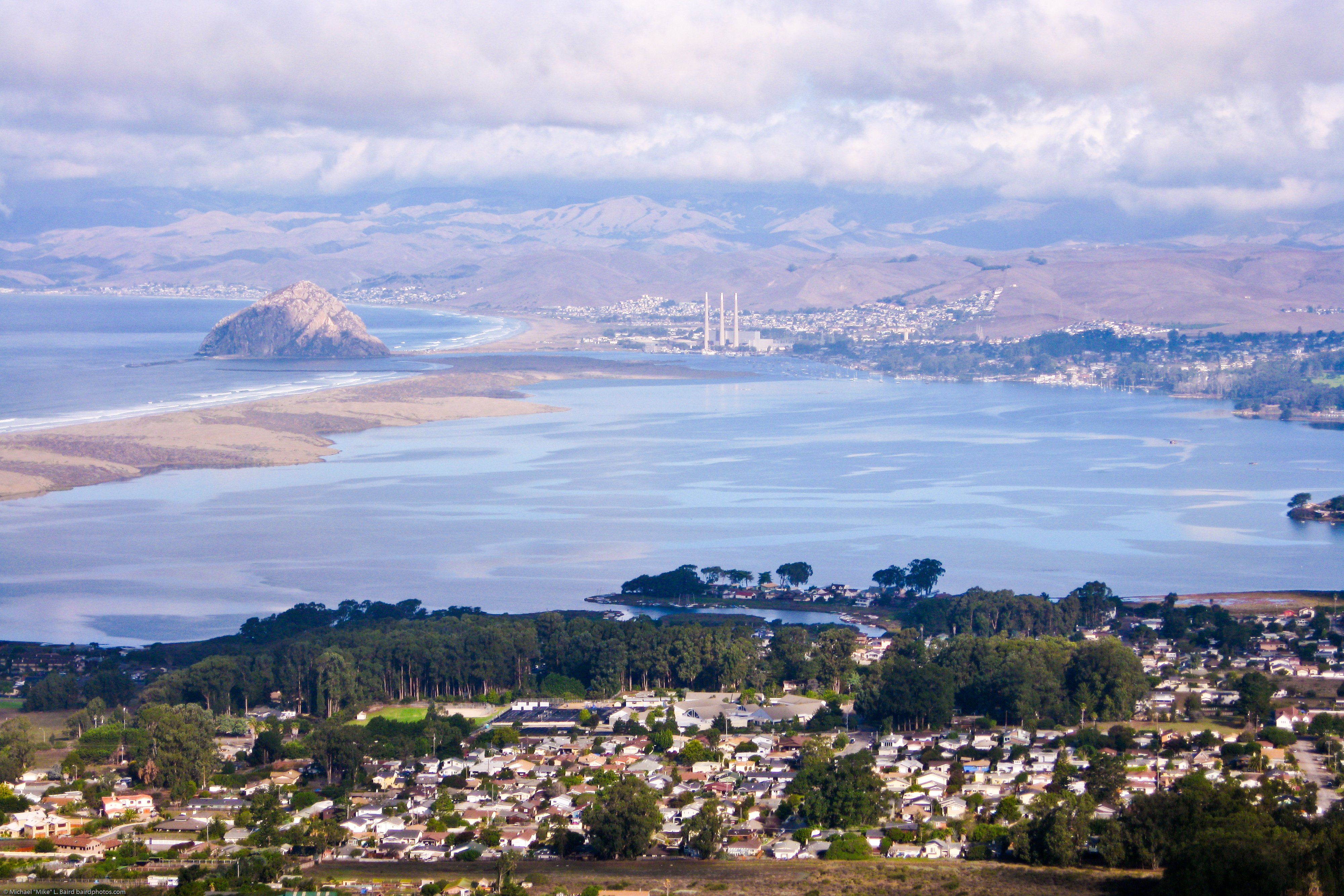 Hike up Broderson Hill in Los Osos, CA, with wonderful views of Morro Bay and Morro Rock, Thanksgiving day, 27 Nov. 2008. Michael "Mike" L. Baird , Canon SD950 snapshot. For some reason this little SD950 given many images a painting-like effect in camera. View of Morro Bay, Morro Rock, the Morro Bay Estuary, Baywood, Los Osos, power stacks, "smoke stacks," sandspit, and Sweet Springs, during a high tide, from a walk to the top of Broderson Hill, at the boundary of Montaña de Oro State Park.